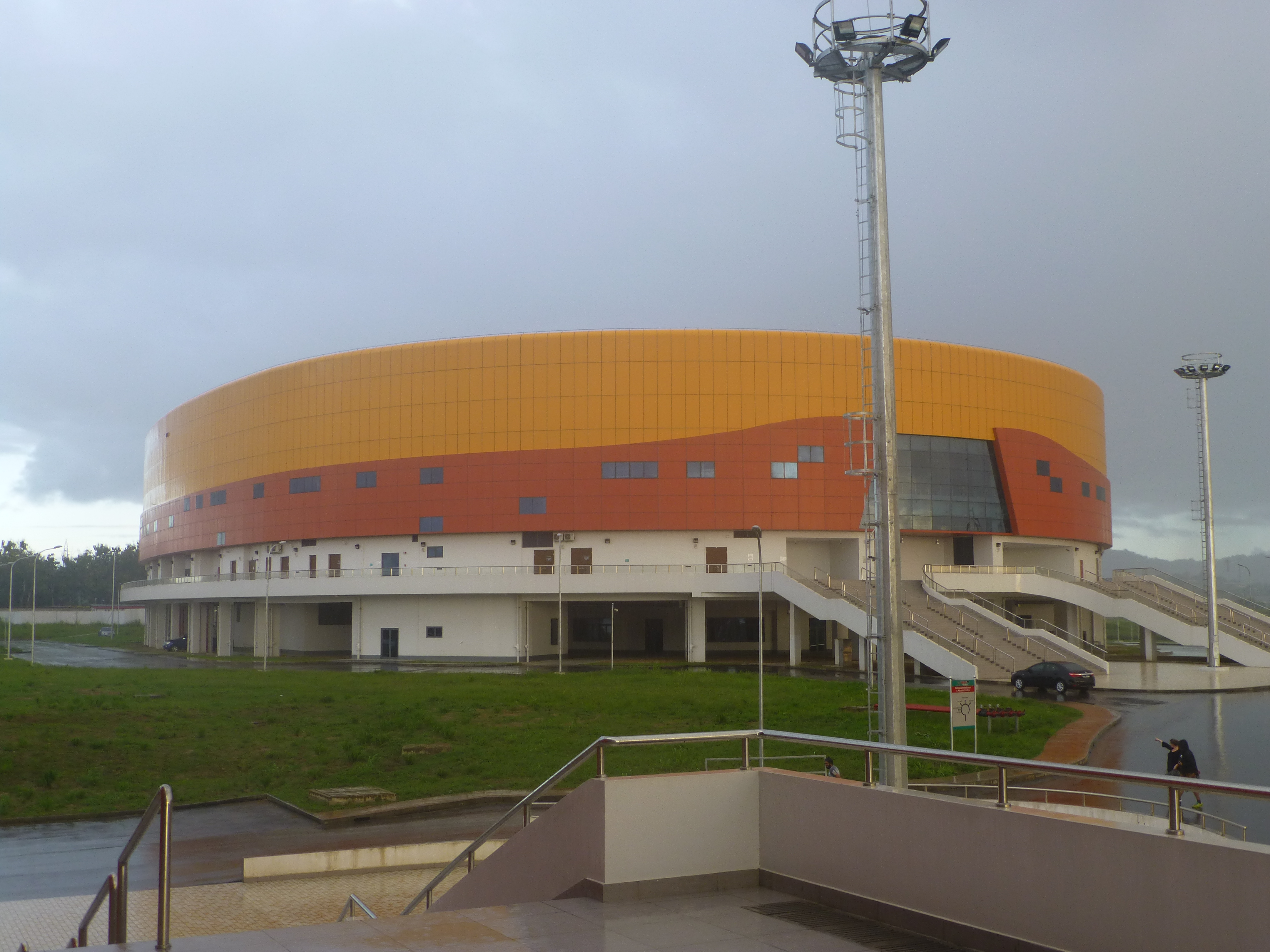 National Cycling Centre, Couva, Couva-Tabaquite-Talparo, Trinidad and Tobago. Requested by and thus dedicated to WP cycling guru Nicola.